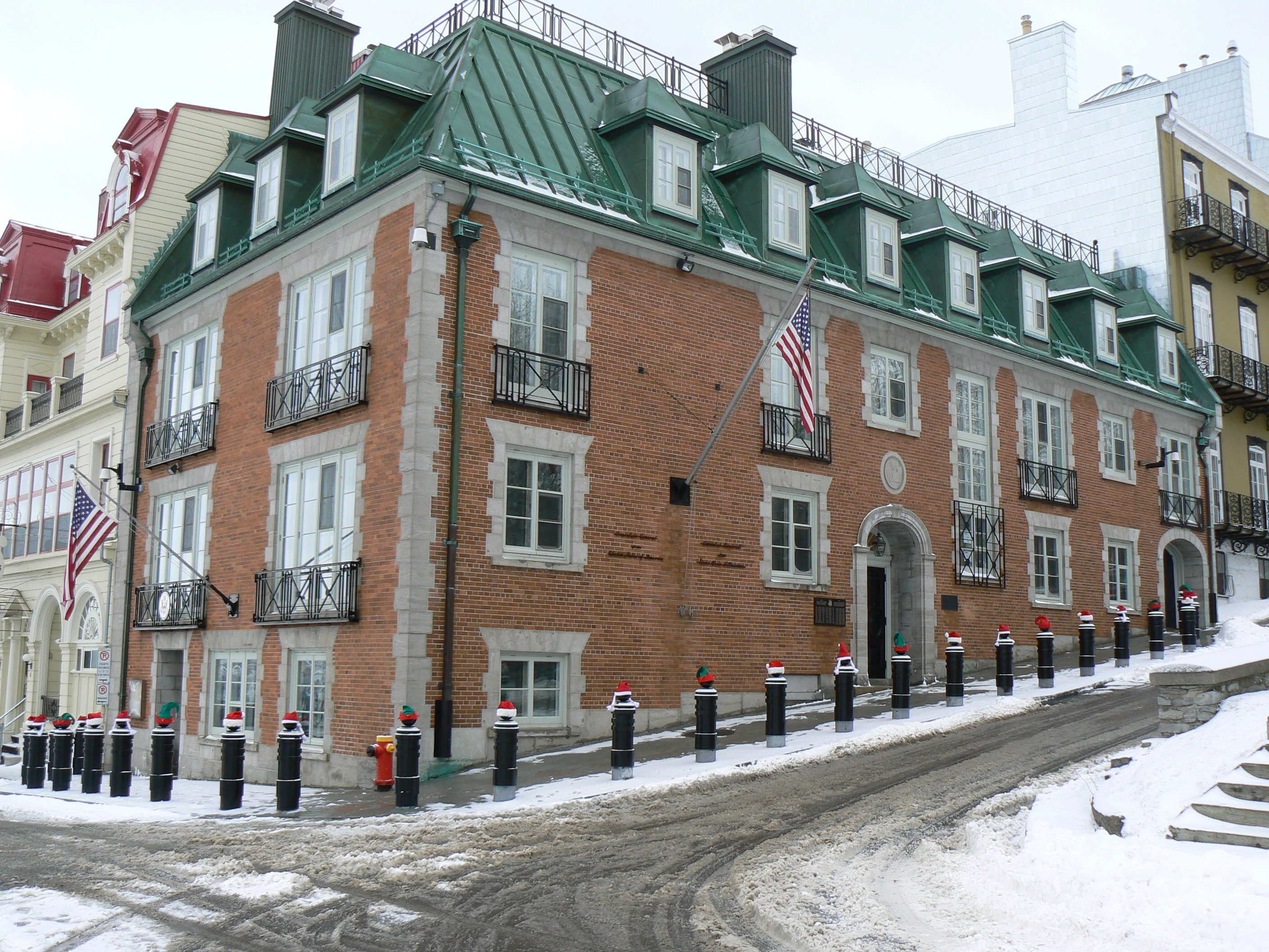 Consulate General Quebec City is getting ready for Christmas. Bollards have magically turned into Santa, Mrs. Claus and jolly little elves.